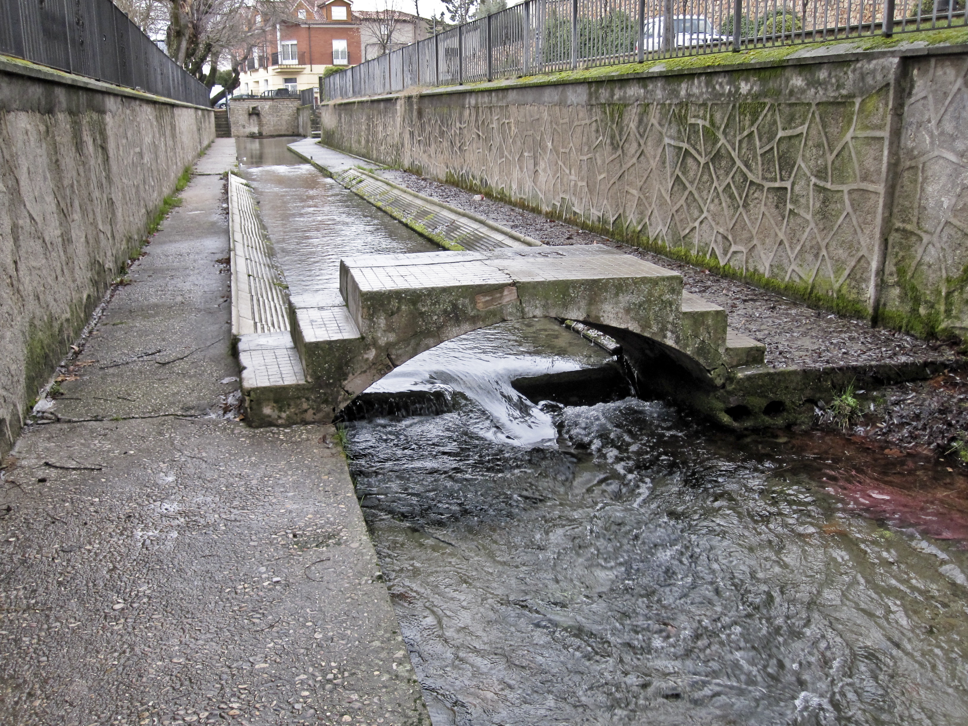 The running up of river Cifuentes, Cifuentes, Spain